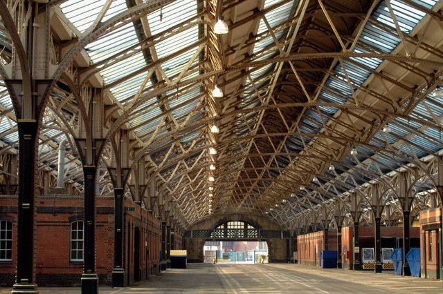 The former Marine Station, Dover. The construction of this station on Dover's Admiralty Pier started in 1910, but it did not operate commercially until 1919. During the Great War it served as a dispersal point for thousands of wounded from the Western Front. During WW2 it featured prominently during the Dunkirk evacuation. Being redundant as a station in the 1990s, it is now preserved and is the main building of Dover Cruise Terminal One.